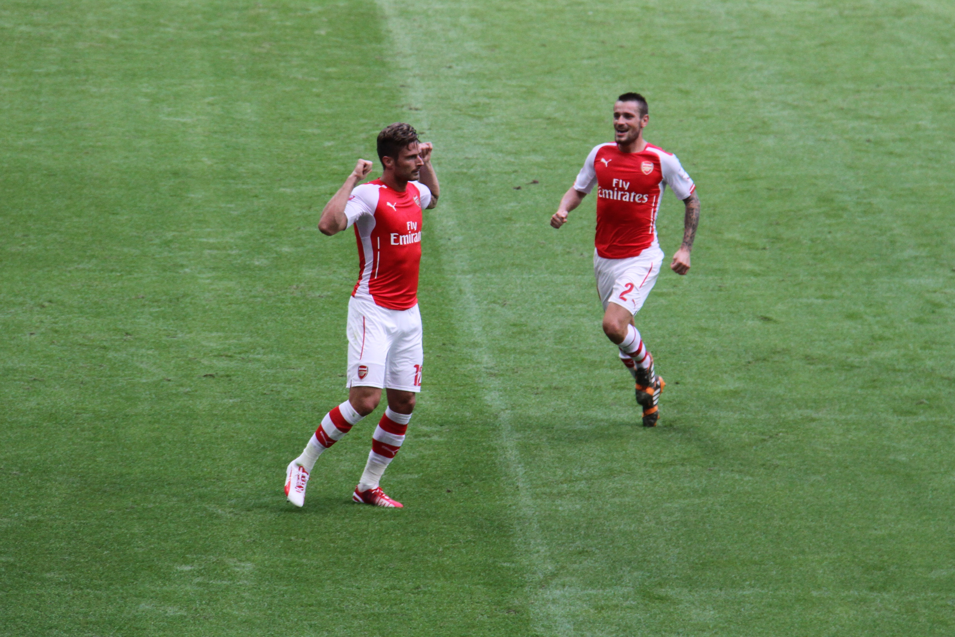 Community Shield 27 - Celebrating Giroud's goal